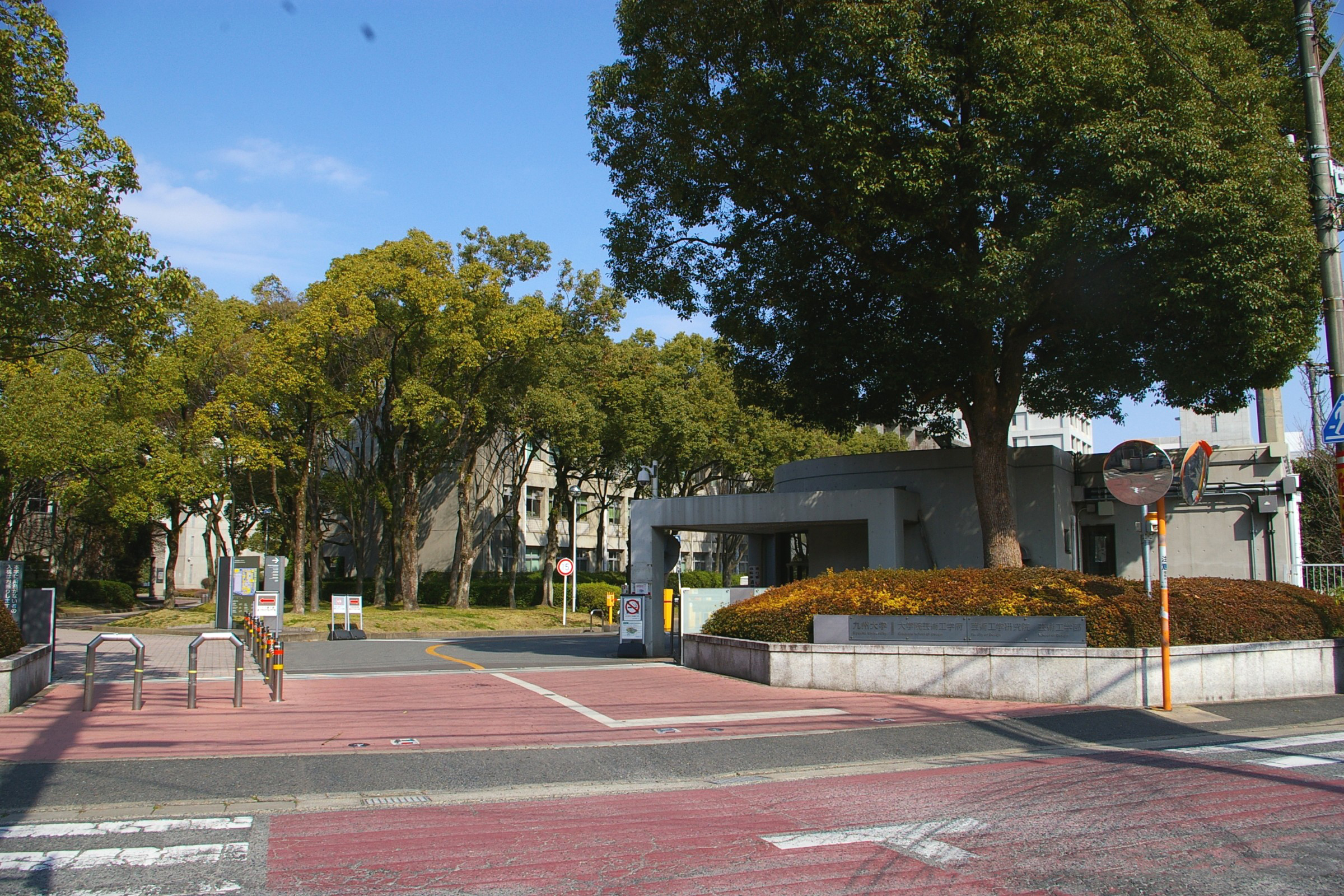 Kyushu Campus main gate without bottom watermark.